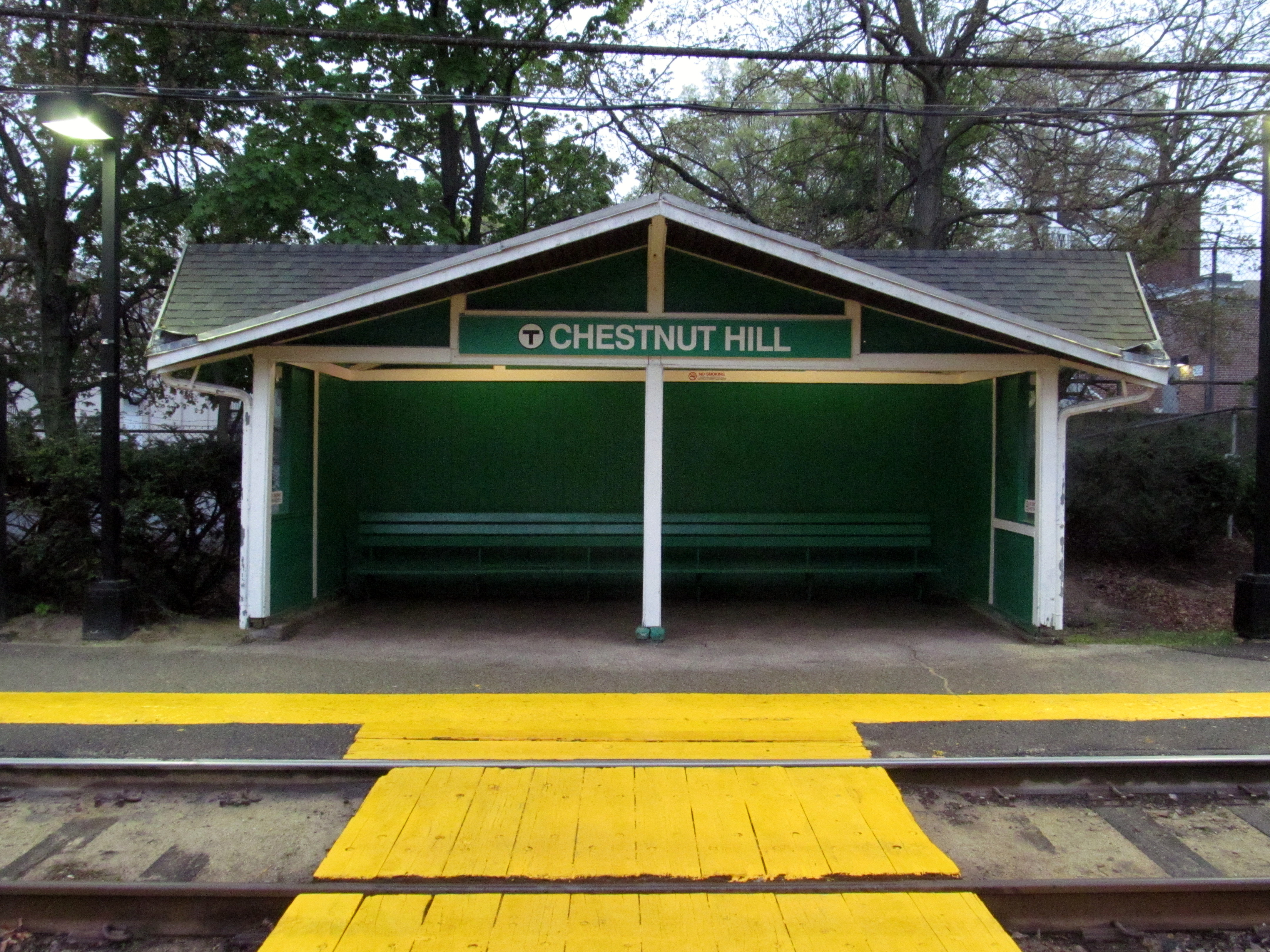 Inbound shelter, of the style common on the "D" Branch, at Chestnut Hill